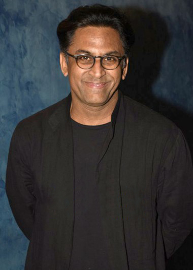 Ram Madhvani graces the screening of Sonata.